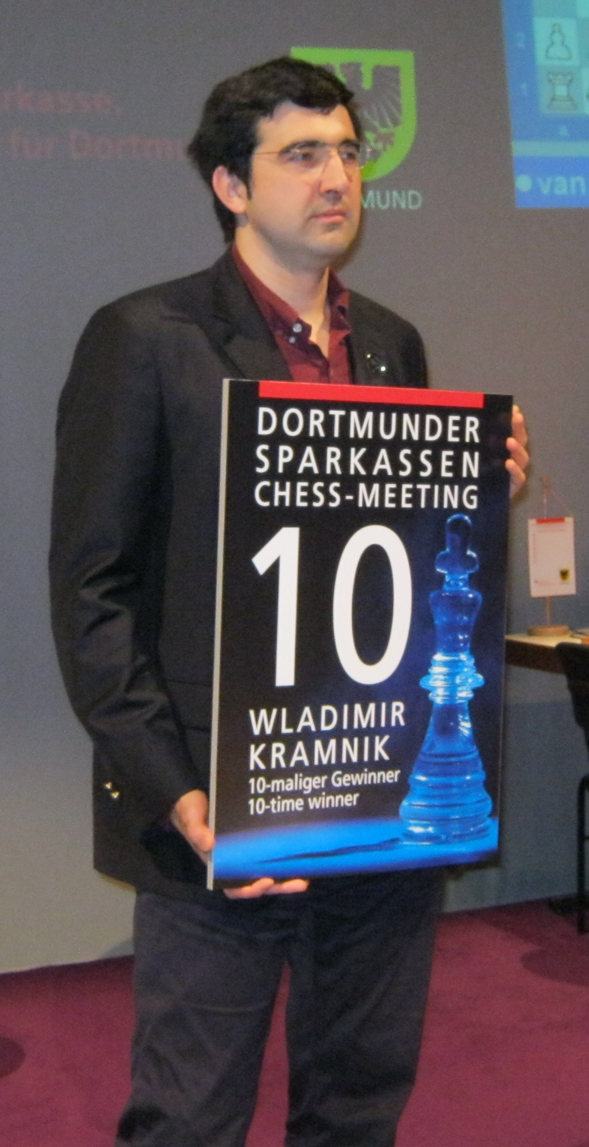 Vladimir Kramnik being honored for his 10th victory at the Chess Meeting Dortmund in July 2011